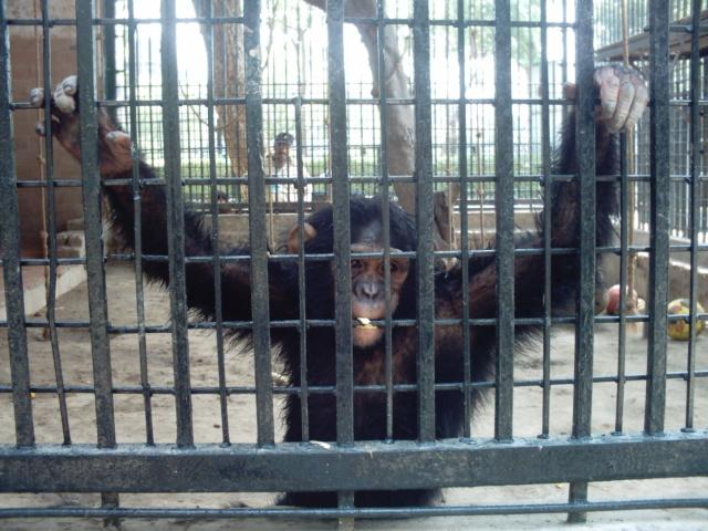 A Chimpanzee in Lahore zoo